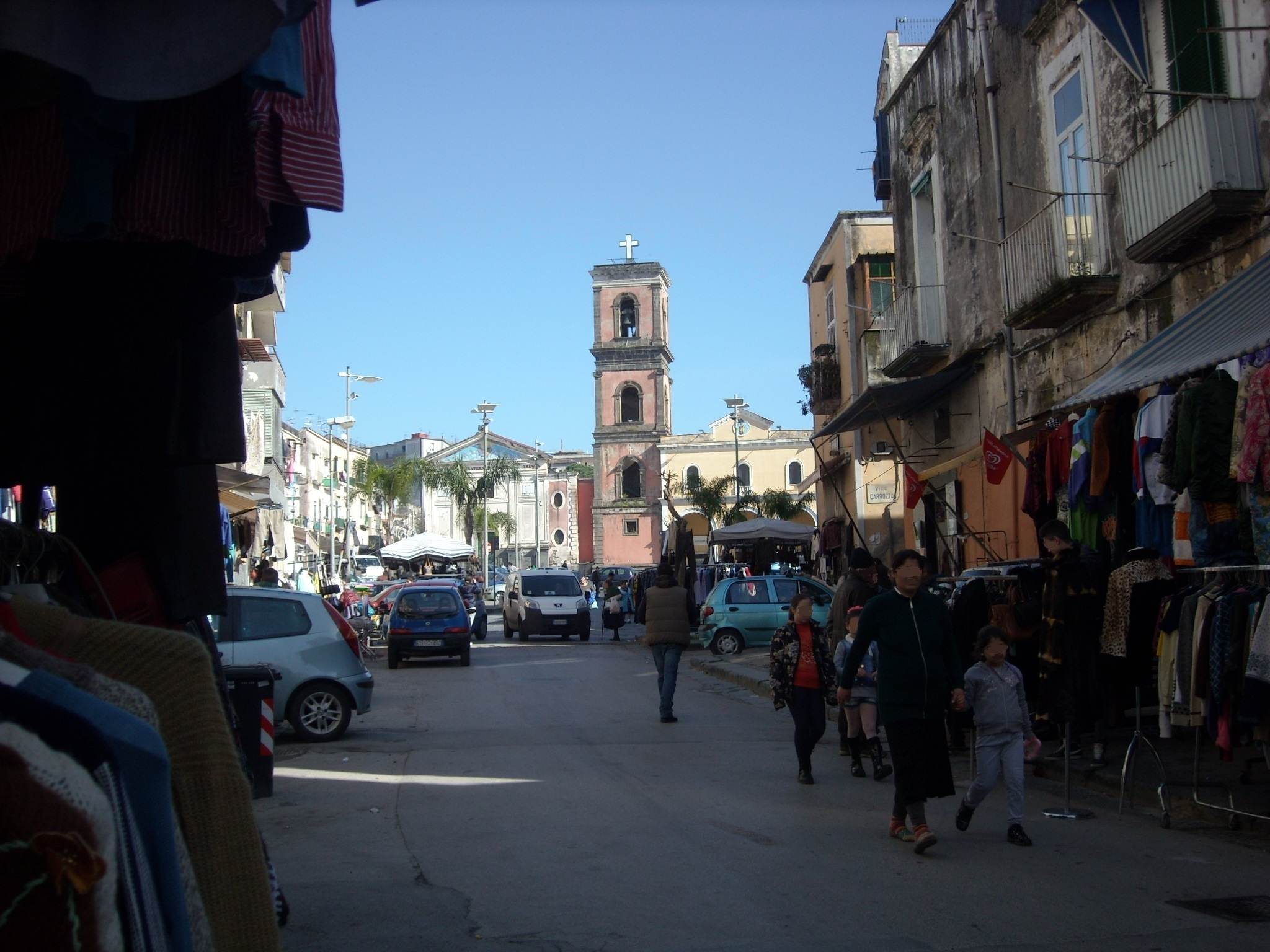 The Street market of Pugliano (also known as mercato di Resìna) and the Basilica of Santa Maria a Pugliano in the backgrond